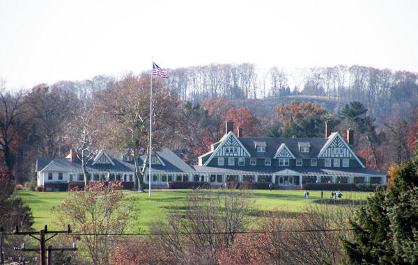 Picture of the Oakmont Country Club located in Plum and Oakmont, Pennsylvania, on November 7, 2009. Built in 1903, and designed by Henry C. Fownes and Edward Stotz, using Tudor Revival architecture, the Oakmont Country Club is listed on the National Register of Historic Places and is a National Historic Landmark.